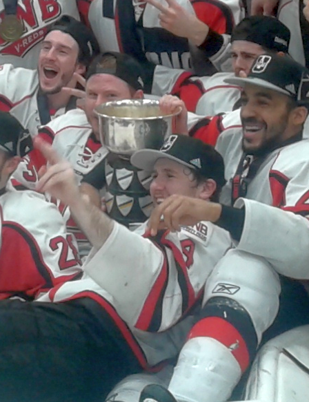 UNB Varsity Reds players celebrate after winning the University Cup, March 19, 2017.